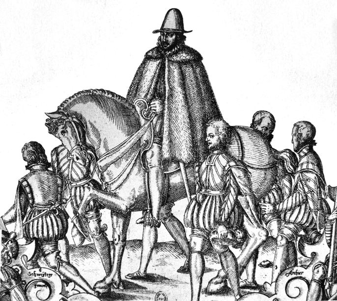 Henry_in_Polish_costume_1574